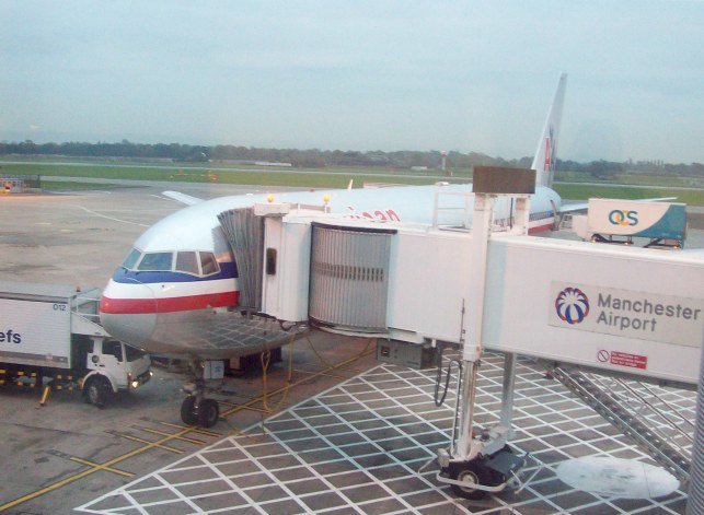 American Airlines 767-300 at Manchester International Airport, Manchester, England.